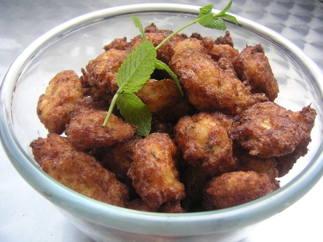 Codfish fritters. These fritters are very typical in most of all mediterranian régions and in particular in the Catalan Countries (Catalonia, València and Balearic Islands). They are small balls made of cod, eggs, milk and flour; aromatised with fresh garlic and fresh parsley; fried in olive oil and served as "tapas" or for example, with a salad, as a dish.